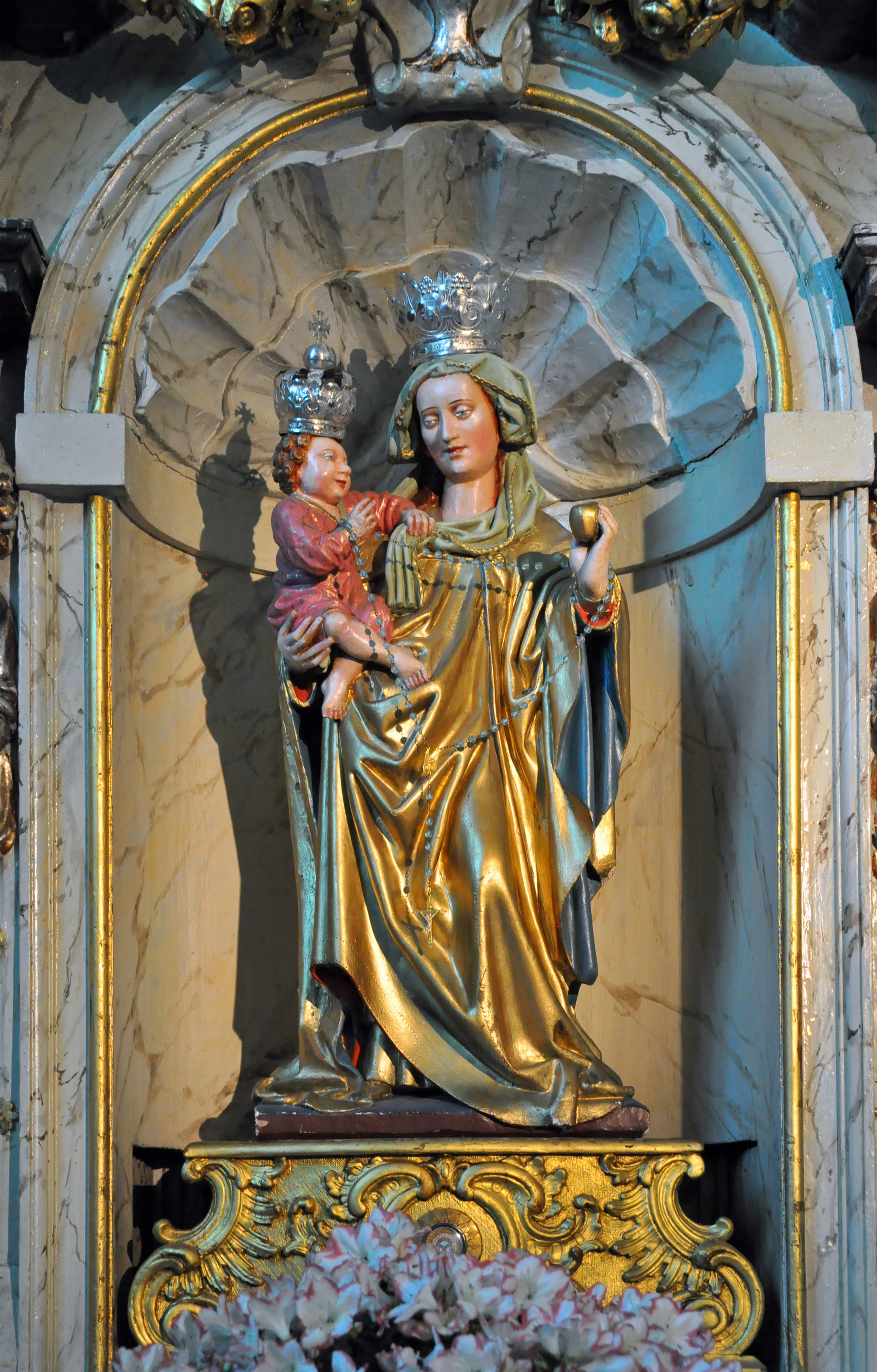 Meetkerke (Zuienkerke, Belgium): church of the Assumption of Mary, interior - detail: the so-called miraculous statue of St Mary